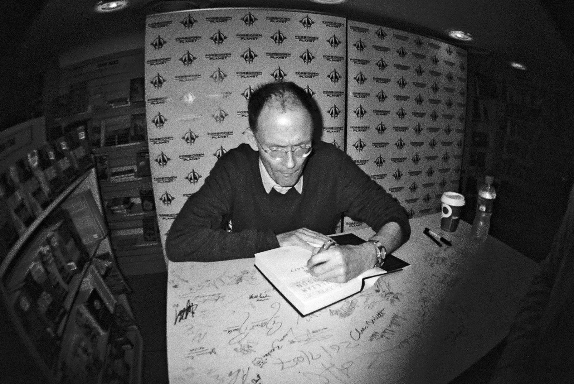 Author William Gibson signing a copy of his novel Zero History at Forbidden Planet in London on October 20, 2010.